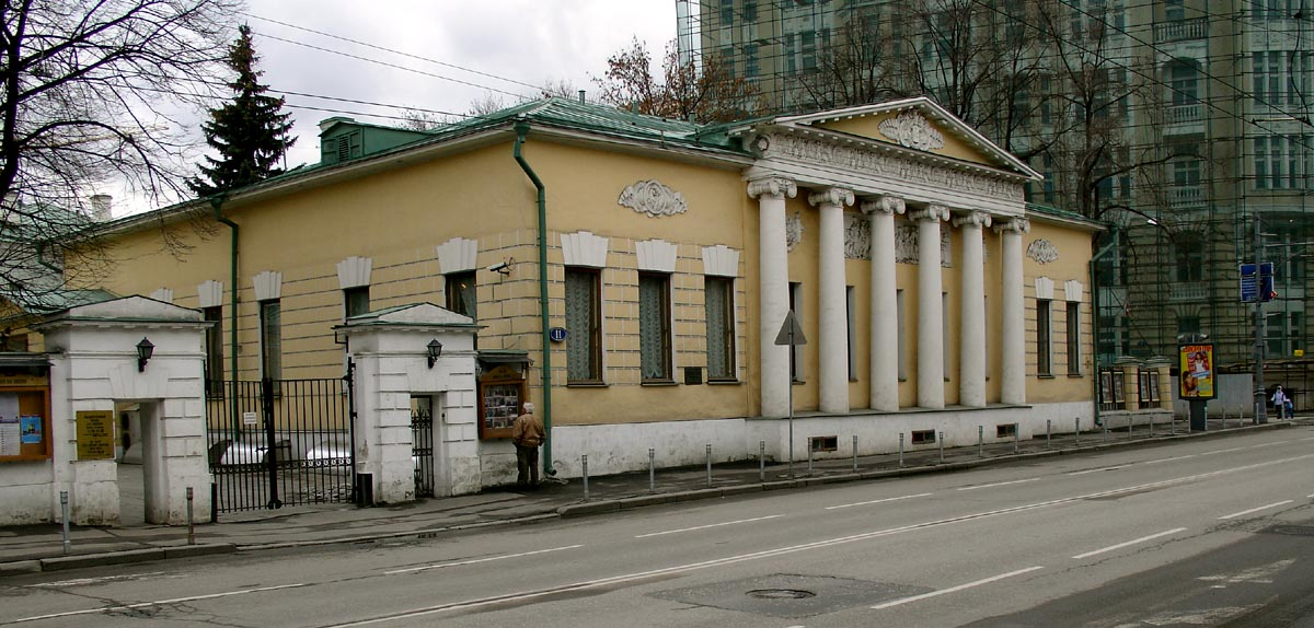 Leo Tolstoy Museum, Moscow, Prechistenka Street, architect: Afanasy Grigiriev, 1820s